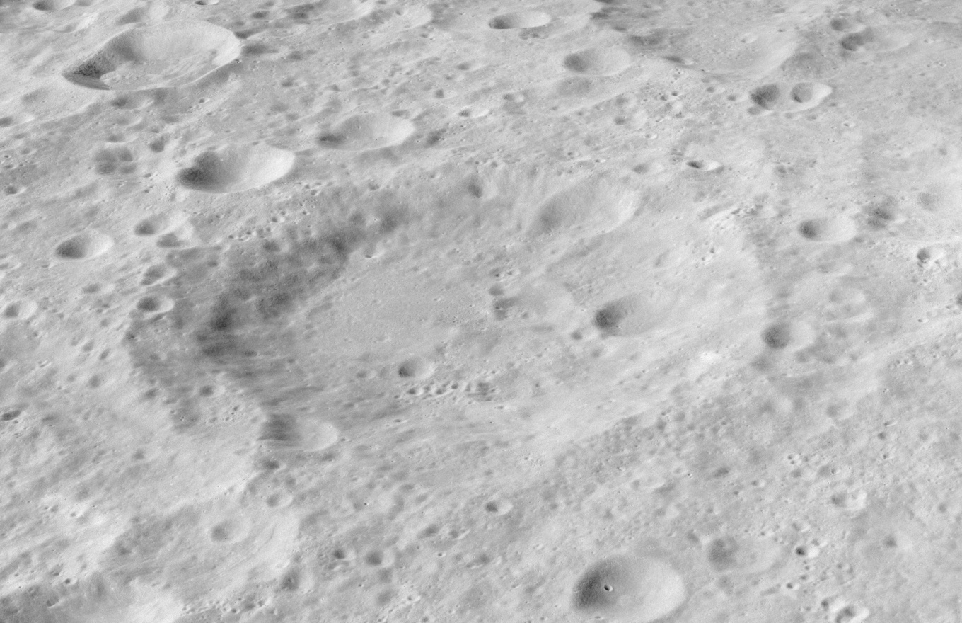 Oblique view of Meshcherskiy, facing north, on the far side of the moon. Altitude 113 km, sun elevation 32 deg.